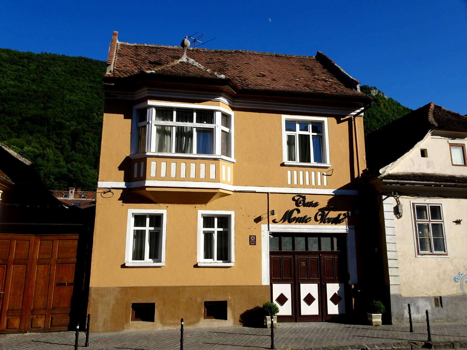 House in Bălcescu street, Brașov